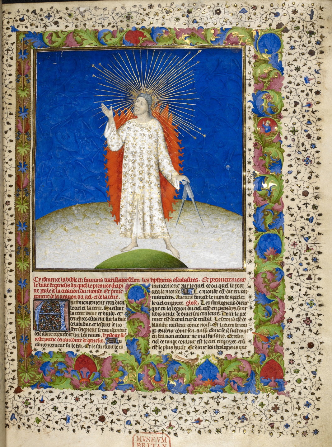 (Whole folio) Miniature containing Creation scene, with God, holding a pair of compasses, creating heaven and earth, with a decorated initial 'A' beginning the text of Genesis 1, below, and full foliate and ivy leaf borders.